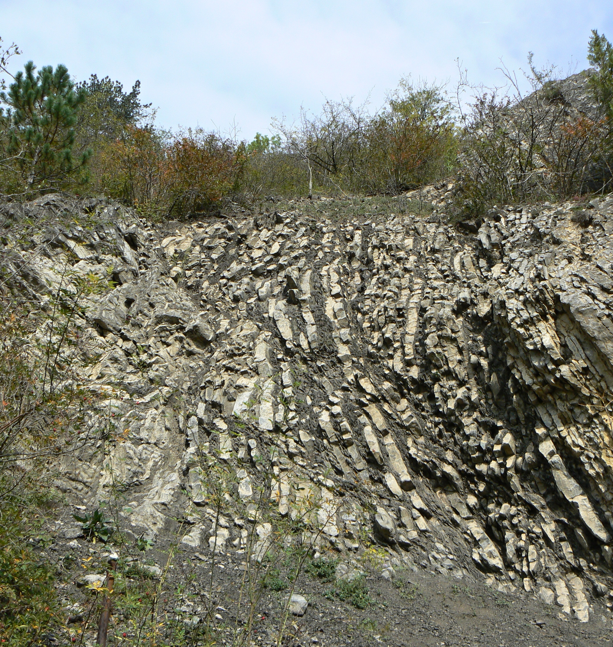 Budňany Rock near Karlštejn in national nature reserve Karlštejn, Beroun District